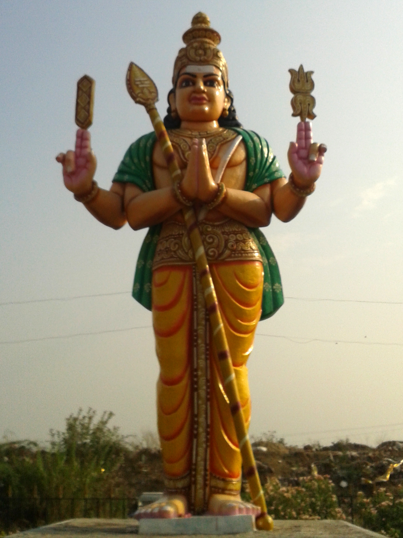 Statues of Hindu Deities at Lord Shiva Temple in Kanipakam in Chittor district, Andhra Pradesh